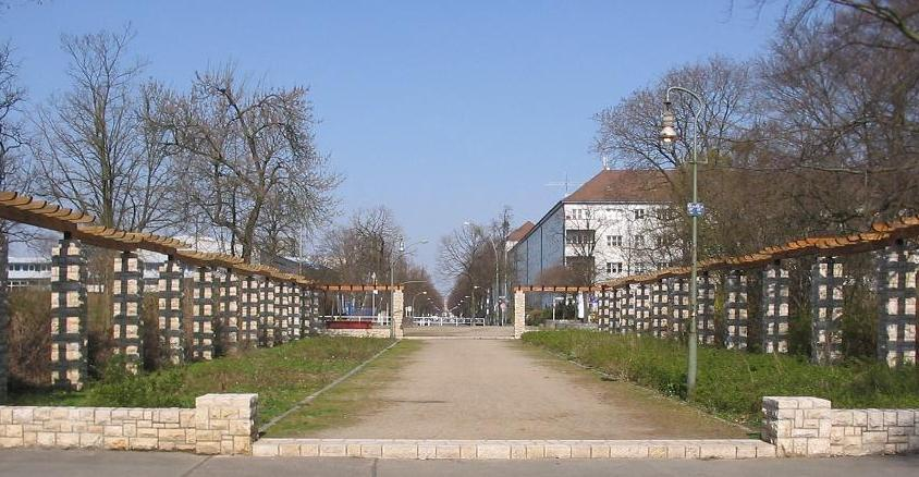 Alboinplatz in Berlin-Schöneberg, Germany.